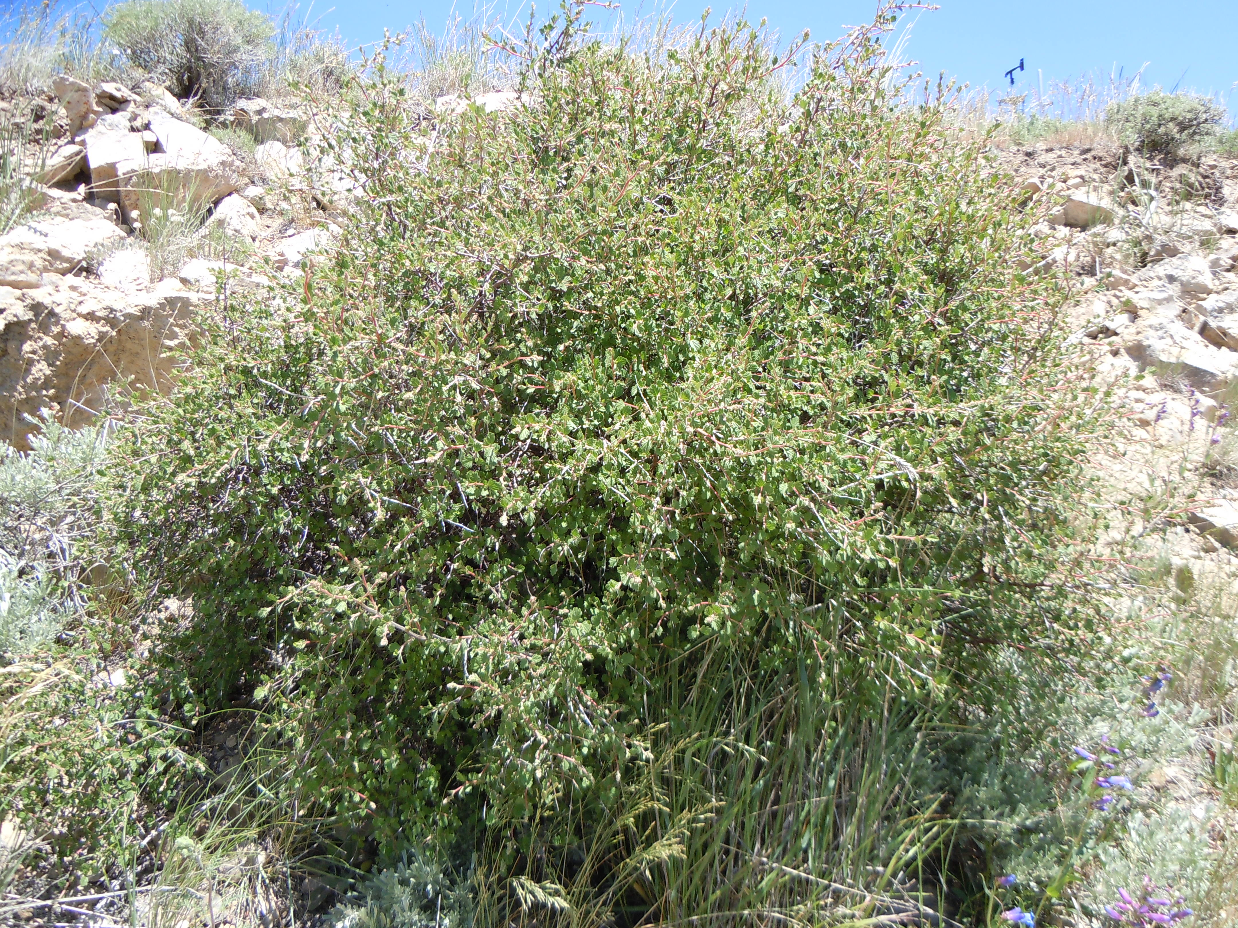 Holodiscus inhabits rocky outcroups and road cuts at upper elevations on the driest exposures. This shrub is rarely if ever found in sagebrush steppe.